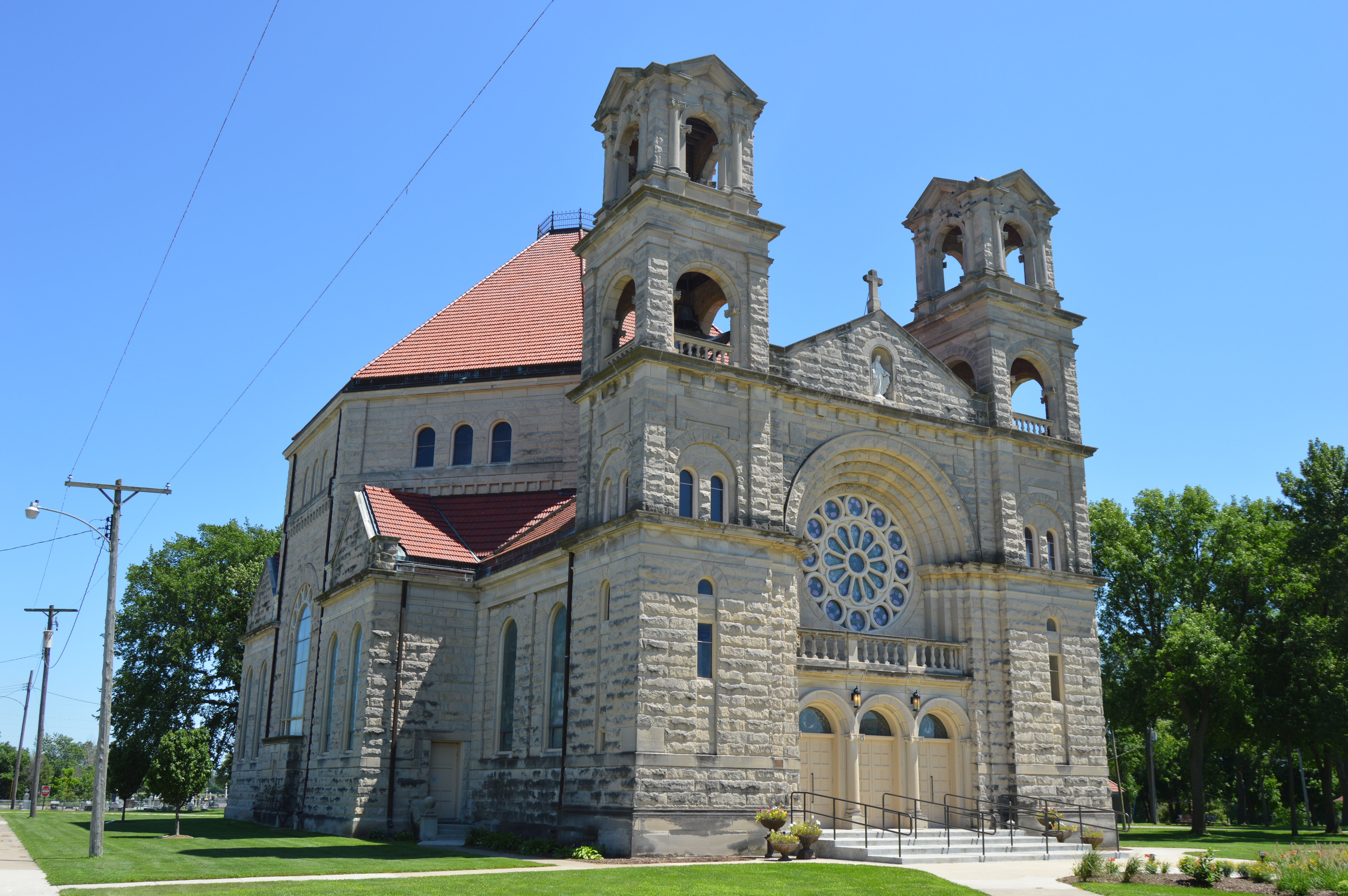 Front and northern side of St. Mary's Catholic Church, located at 308 St. Charles Avenue in Beaverville, Illinois, United States.